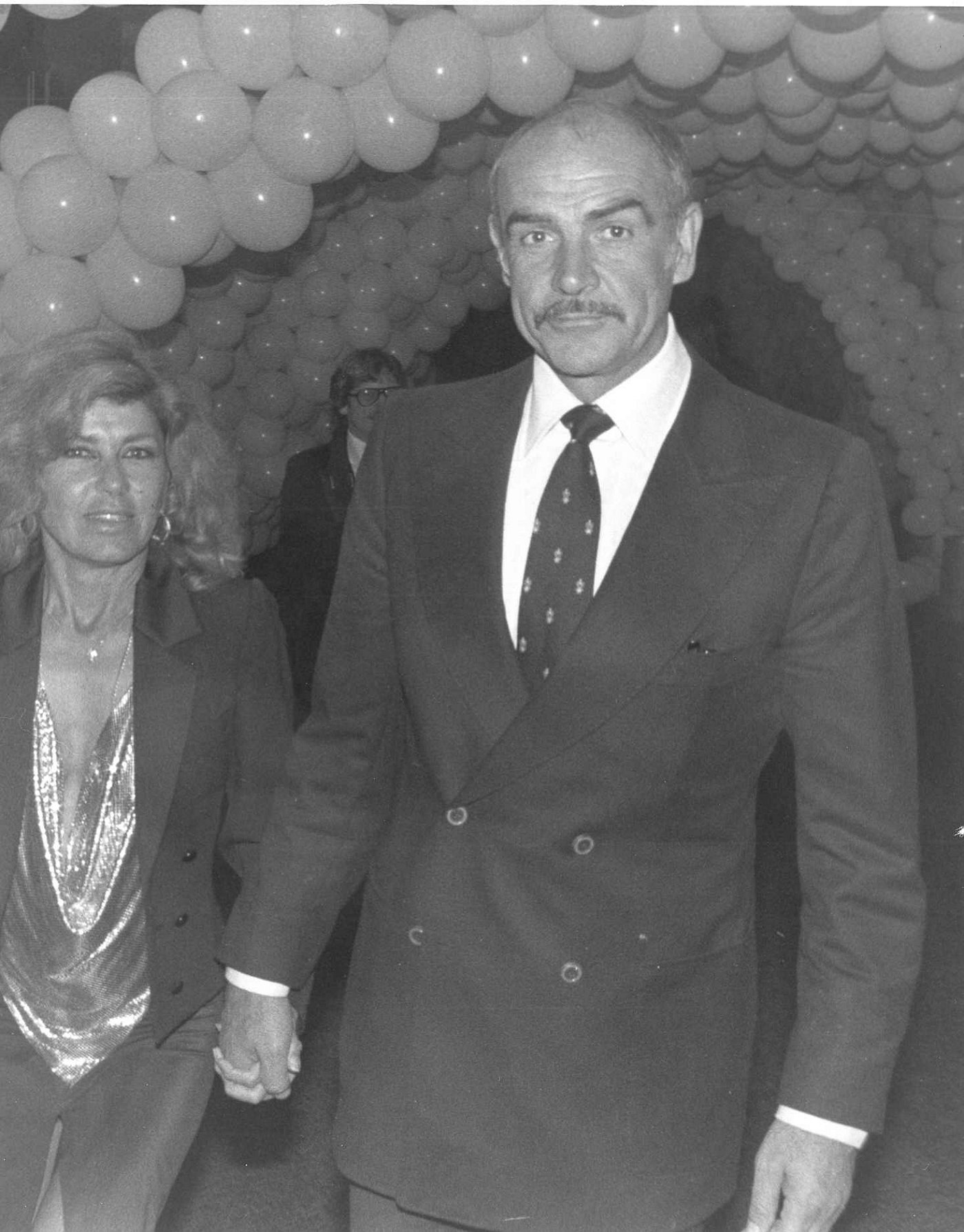 Sean Connery at the premiere of Seems Like Old Times.